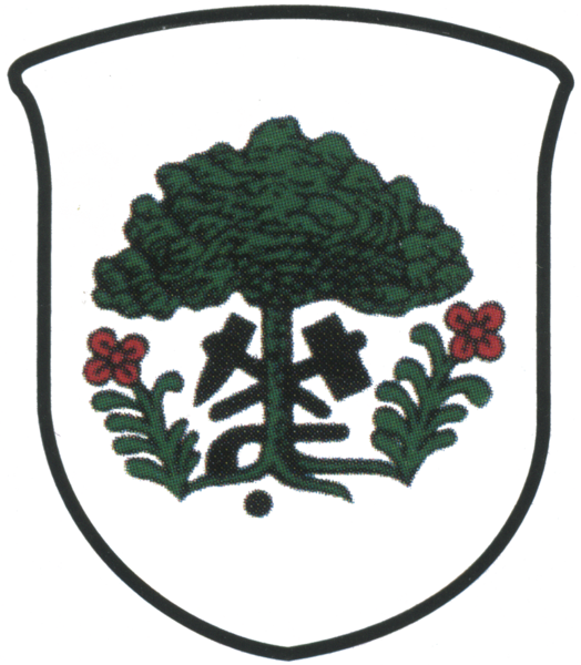 This file depicts the coat of arms of a German Körperschaft des öffentlichen Rechts (corporation governed by public law). According to § 5 Abs. 1 of the German Copyright law, official works like coats of arms are in the public domain. Note: The usage of coats of arms is governed by legal restrictions, independent of the copyright status of the depiction shown here. Coat of arms of Schönheide